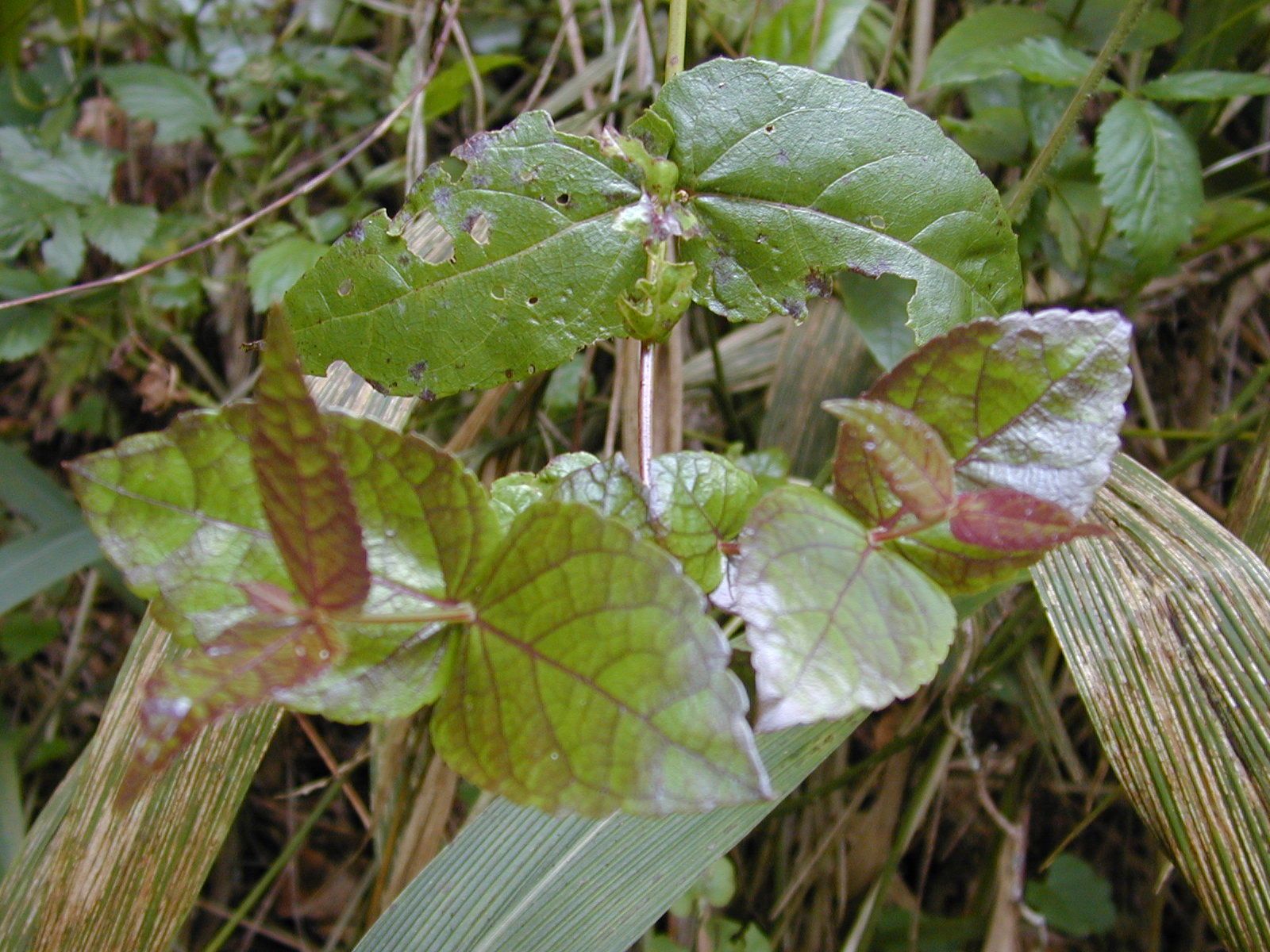 Stenogyne calycosa (leaves). Location: Maui, Makawao Forest Reserve